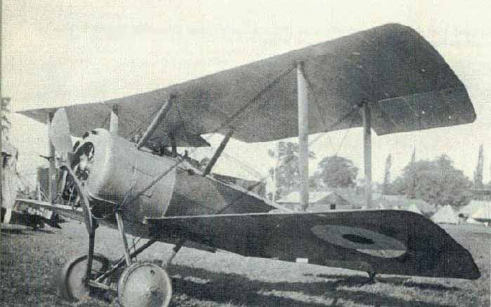 Sopwith pup